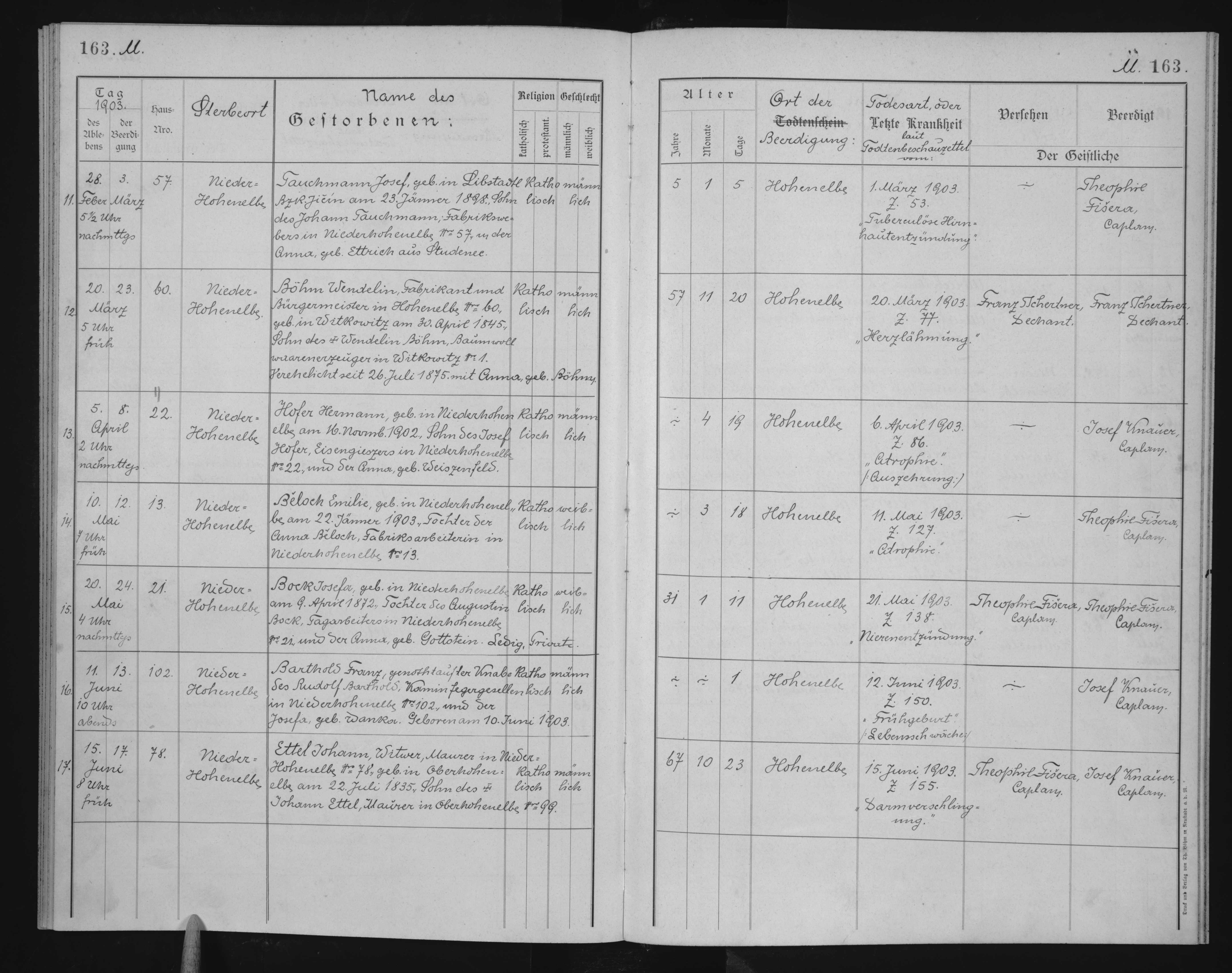 Page from a parish register of Vrchlabí (present-day Czech Republic). The second record from the top confirms the death of Wendelin Böhm (1845-1903), a former mayor of Vrchlabí. The whole book can be downloaded under (179 MB)